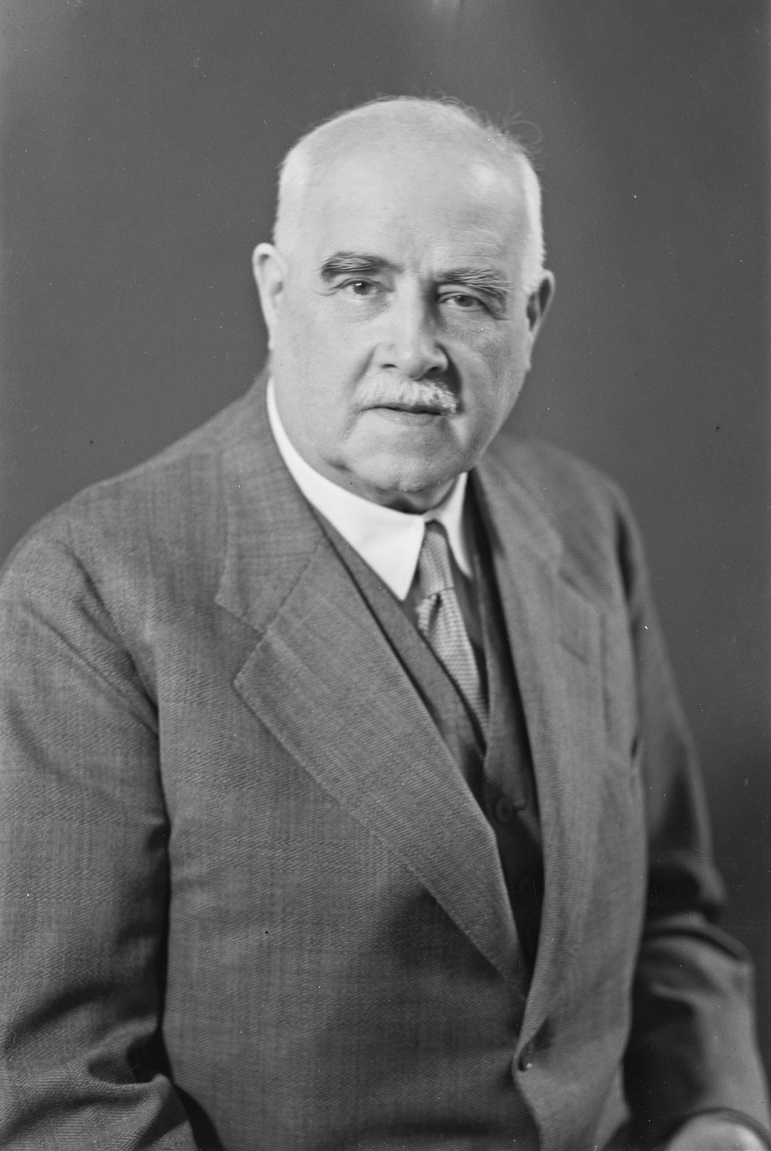 Photograph of the Finnish shipowner, lawyer and Olympic sailor Ernst Krogius (1865–1955).